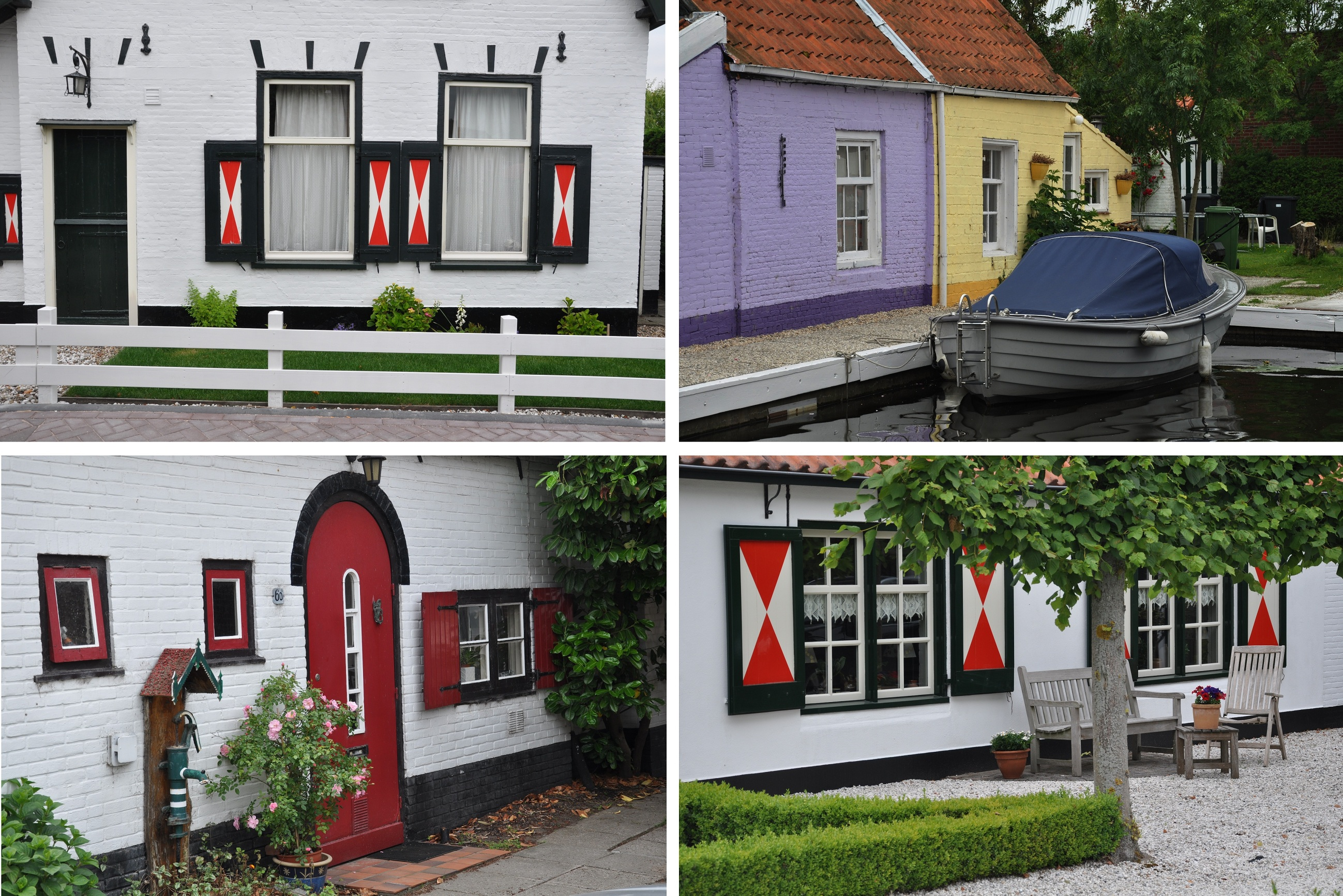 Various facades in Kaag, a village on an island in the Kaag Lakes, north of Leiden (municipality Kaag en Braassem, Province South Holland, Netherlands).